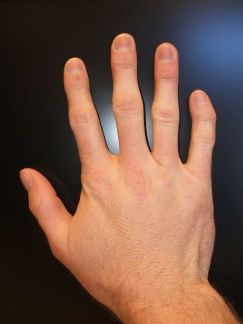 Photo of my hand, with prominent clinodactyly issue. FYI - both hands have the same curvature.